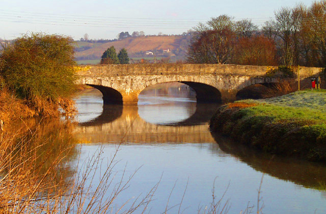 Great Bow Bridge, Langport. The river Parrett flows under this ancient bridge on its way to the sea at Bridgwater. In times of flood the water is almost up to the top of the arches.